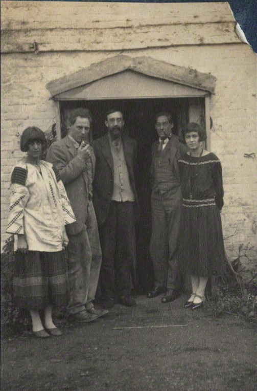 Lady Ottoline Morrell (1873-1938), vintage snapshot print/NPG Ax141540. Dora Carrington; Ralph Partridge; Lytton Strachey; Oliver Strachey; Frances Catherine Partridge (née Marshall), 1923